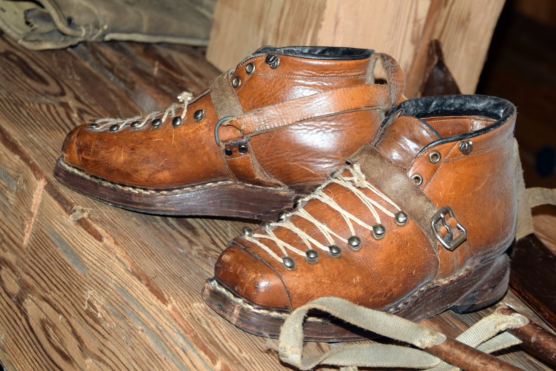 Historic Leather-Shoes for Skiing